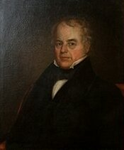 Obadiah Bruen Brown, 11th Chaplain of the United States Senate.